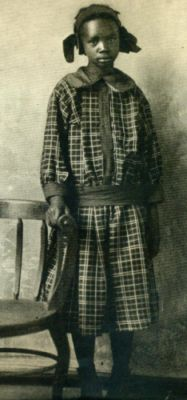 Sarah Rector